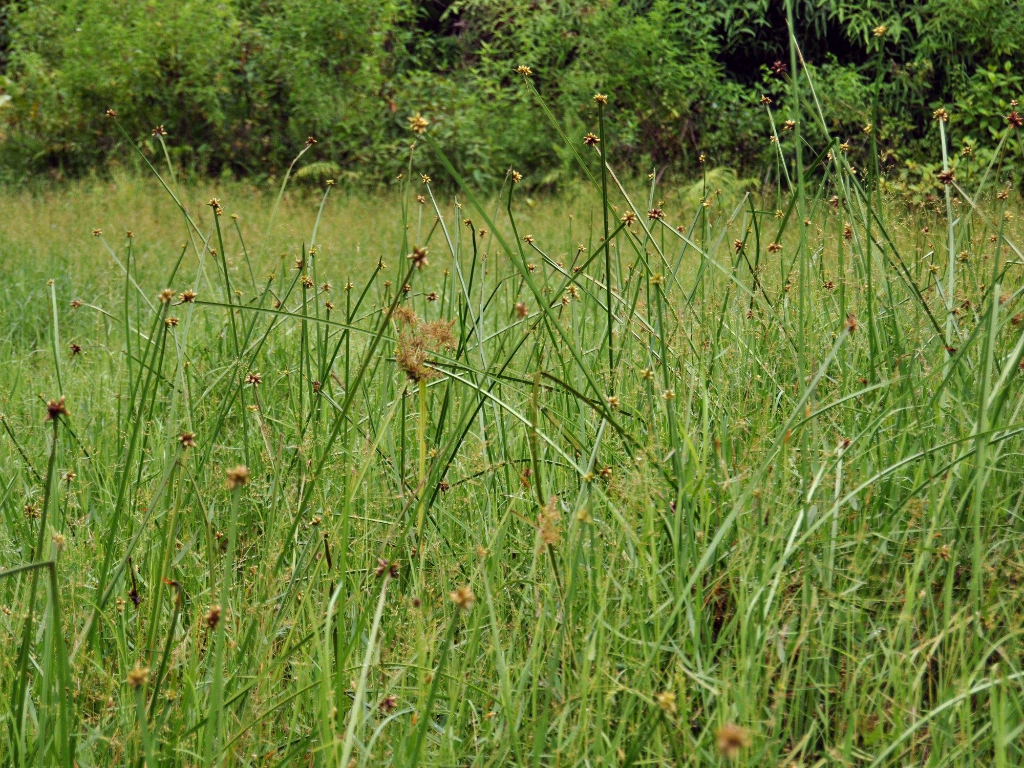 Bog bulrush (Schoenoplectiella mucronata, syn. Scirpus mucronatus); habits. From Mamasa, West Sulawesi, Indonesia.